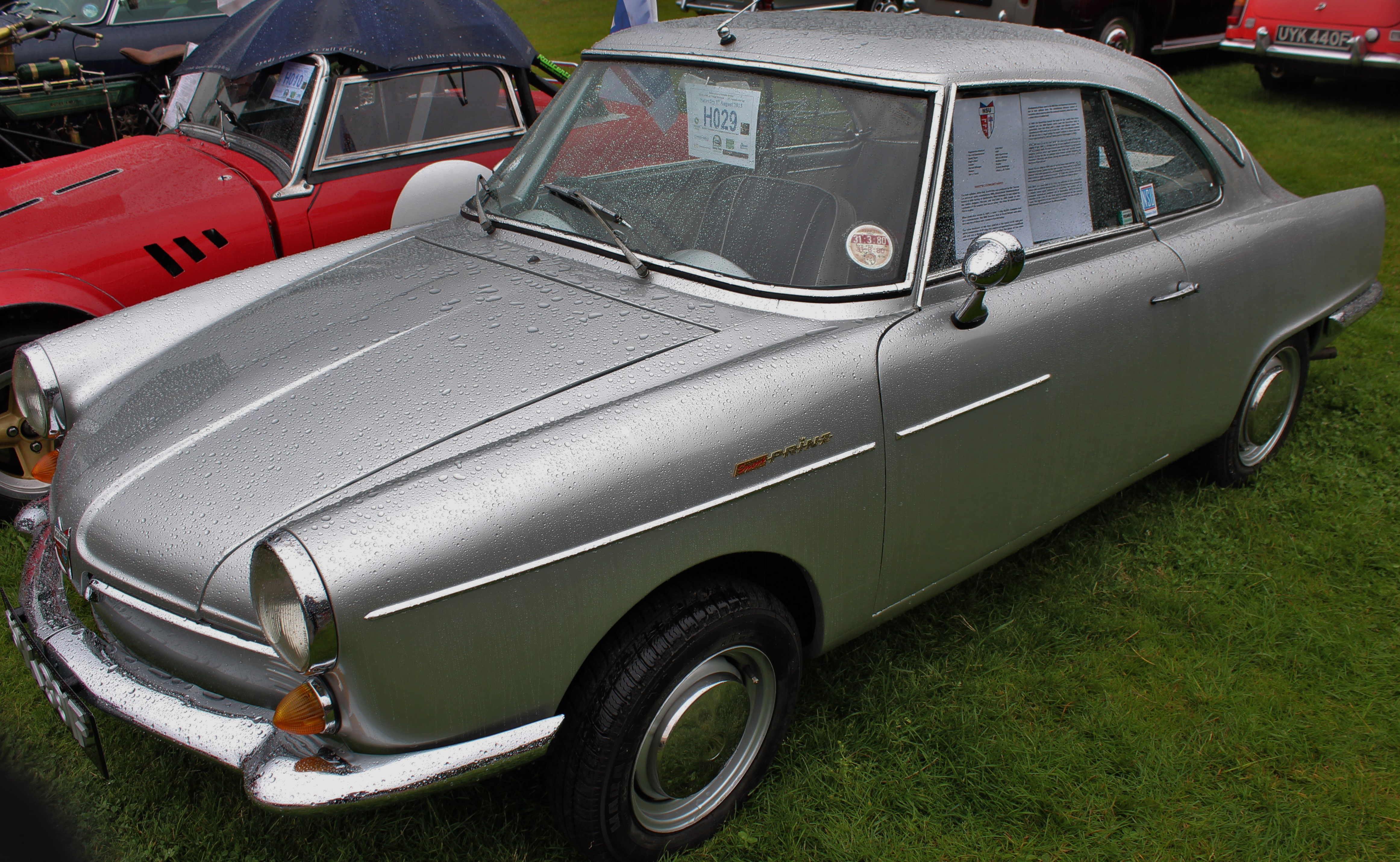 Hebden Bridge classic car show 2015